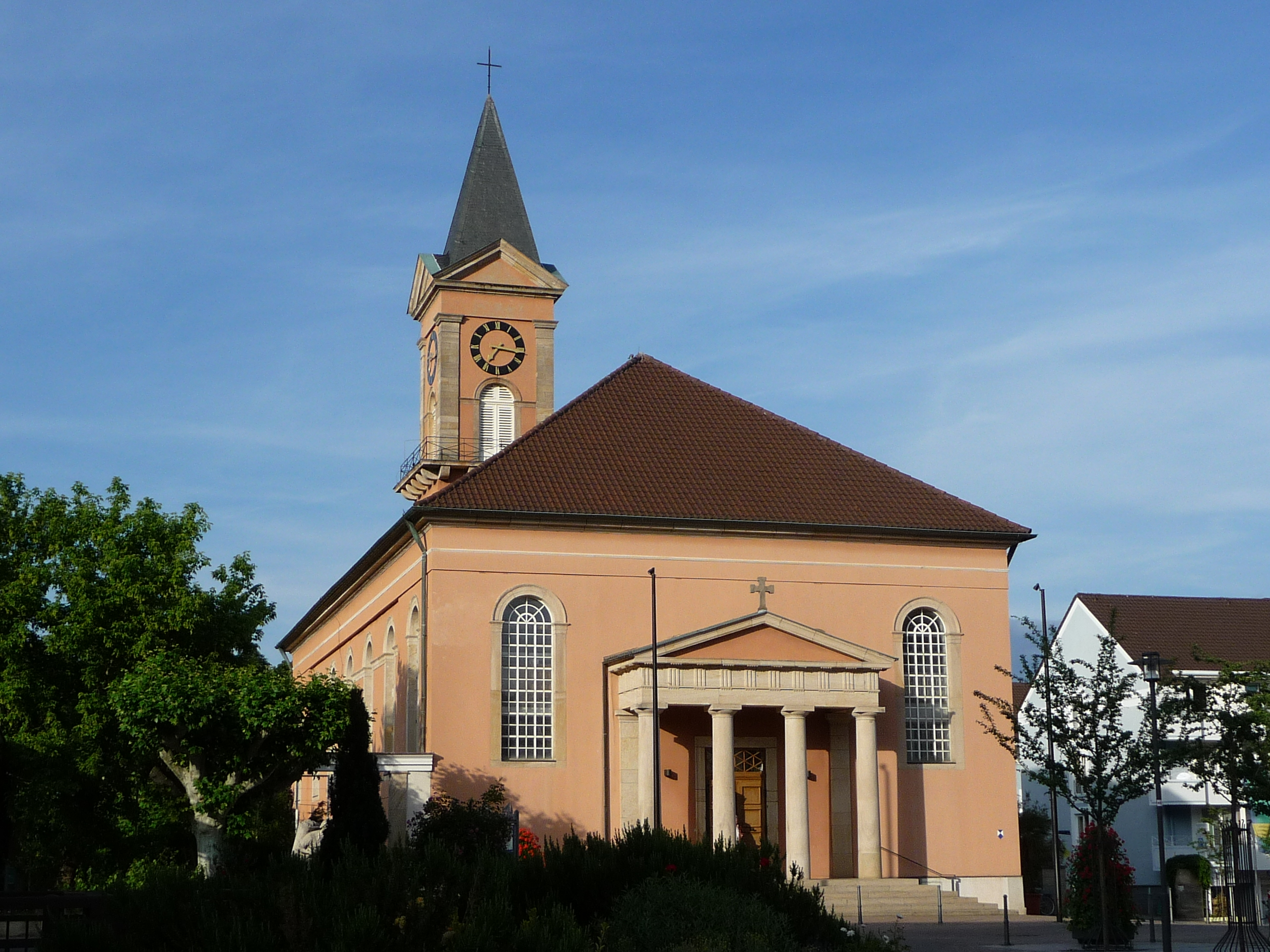 Ludwigskirche Bad Dürkheim